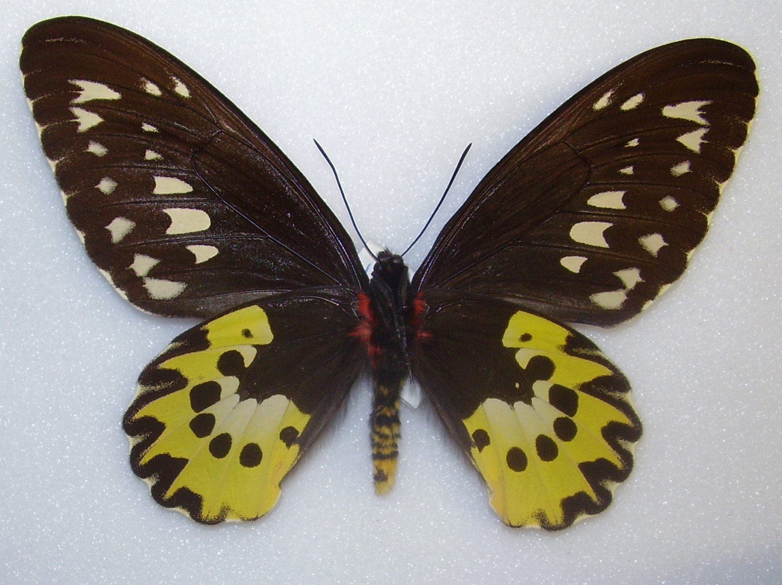 Ornithoptera rothschildi Female, underside. Lake Anggi, West Irian 27 September 1976